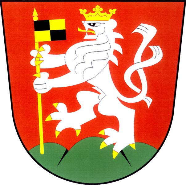 Coat of amrs of Stará Lysá , District Nymburk, Czech Republic